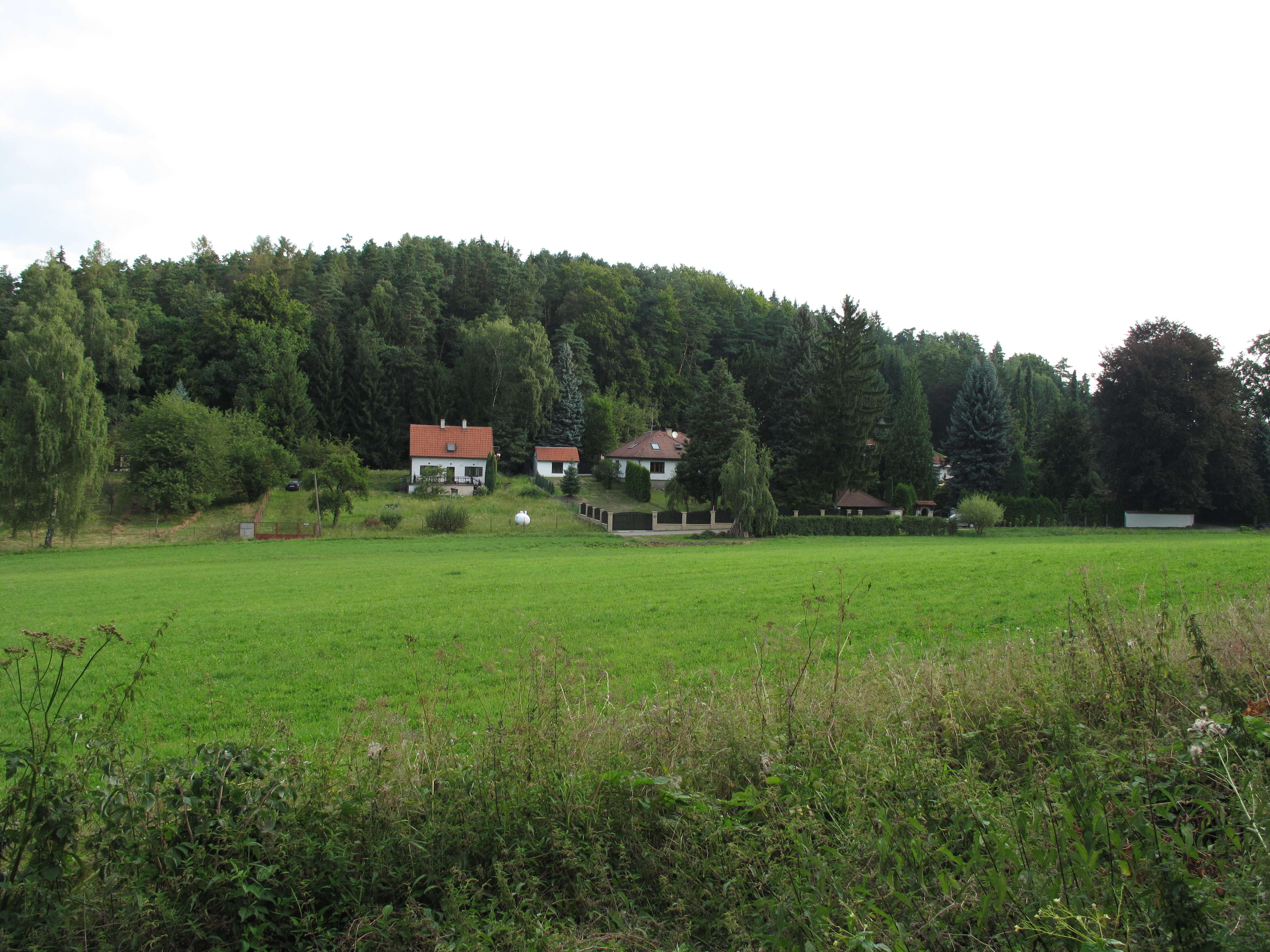 Houses in Vavřetice, Benešov District, Czech Republic.